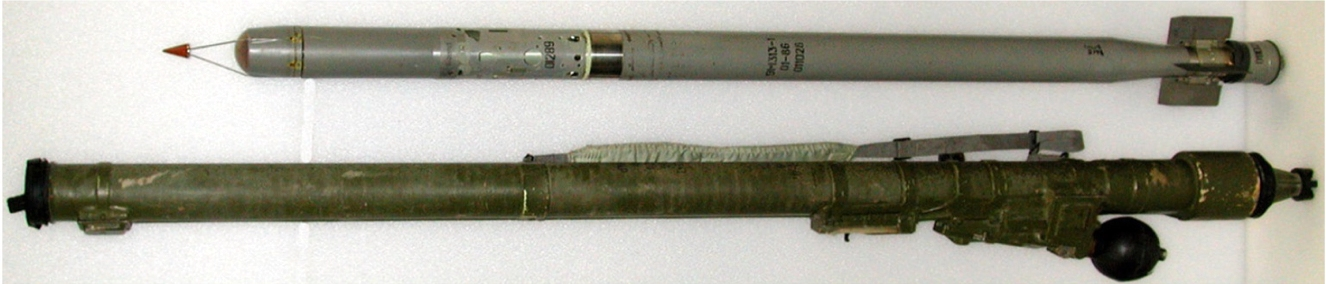 Igla-1 launcher and missile (NATO-Code:SA-16 Gimlet)